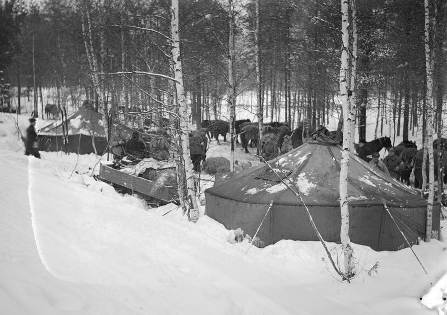 Half plutoon tents warmed by stoves are placed in the terrain under the cover of the trees.